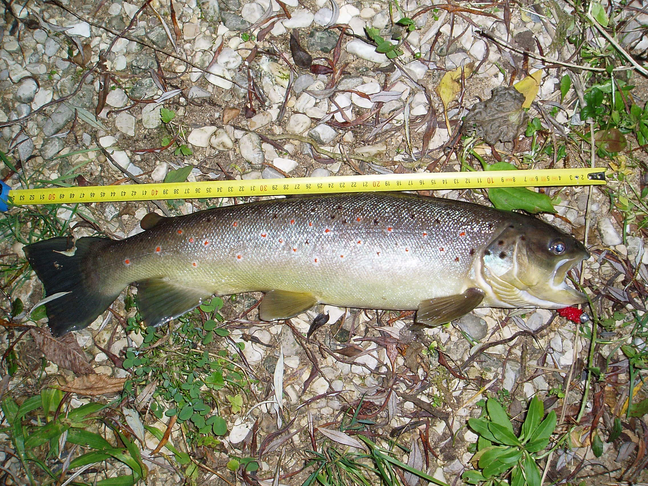 An adult brown trout from Klokot (BiH)